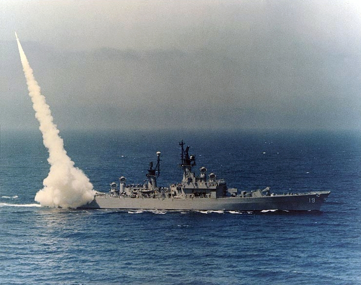 The U.S. Navy guided missile frigate USS Dale (DLG-19) launching a RIM-2 Terrier guided missile, while steaming off Point Mugu, California (USA), in April 1964.